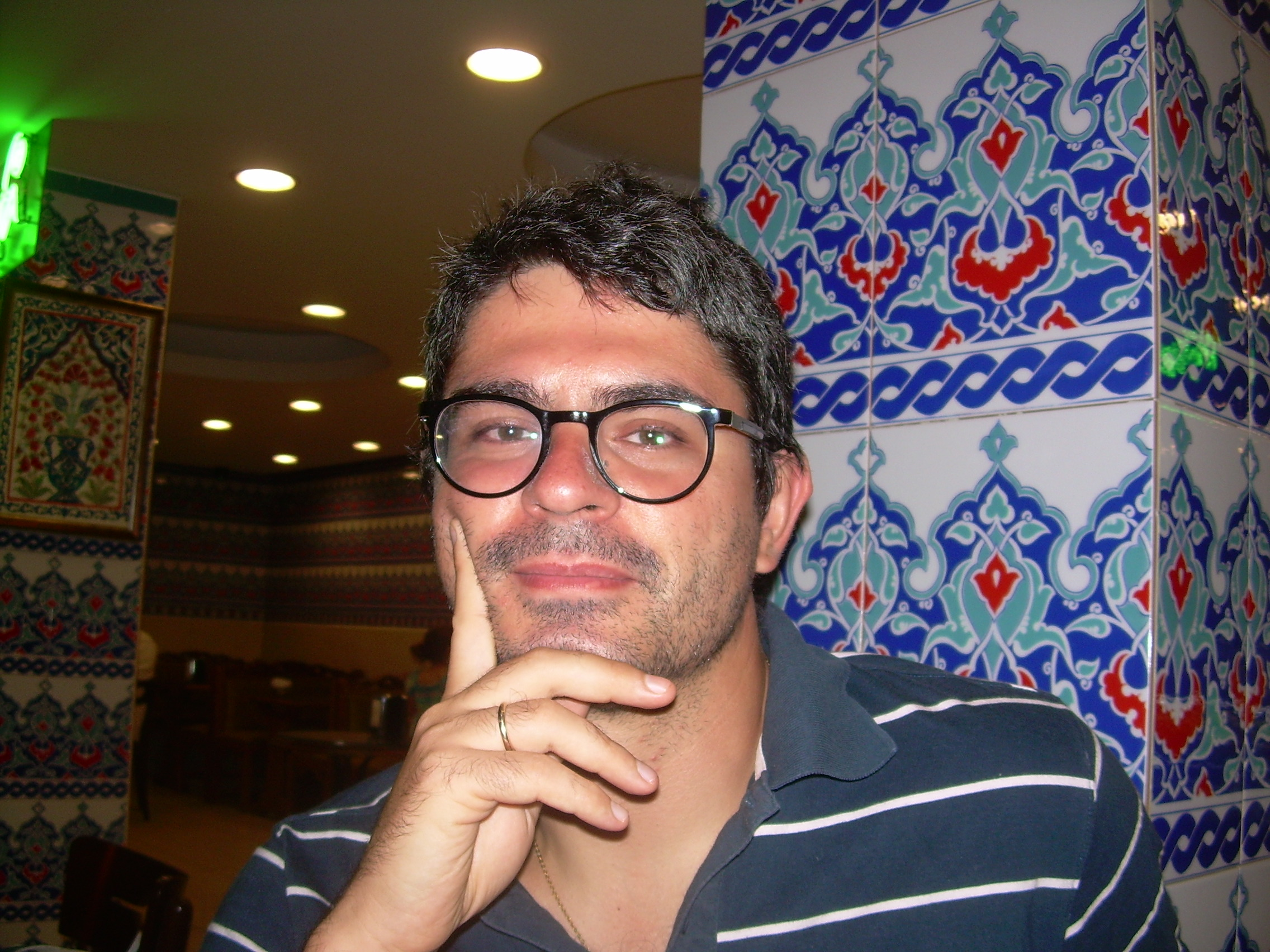 Italian writer, poet and translator Flavio Santi.